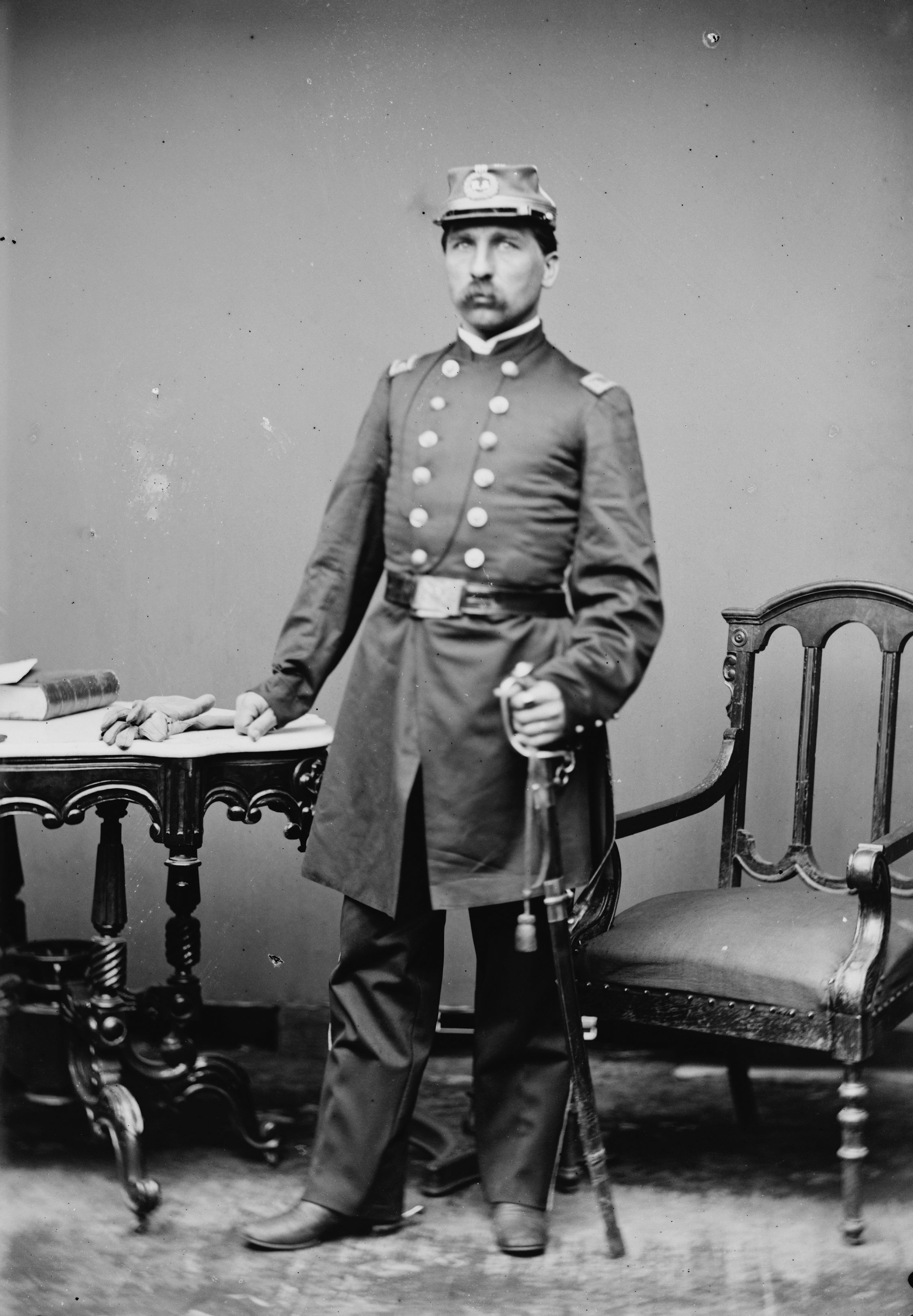 Title: Oscar V. Dayton Physical description: 1 negative